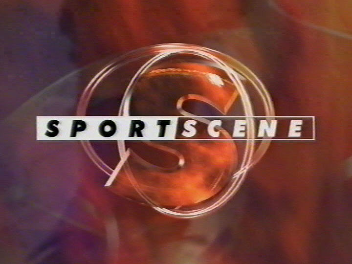 Still frame from animated ident for BBC Scotland produced by Liquid Image.